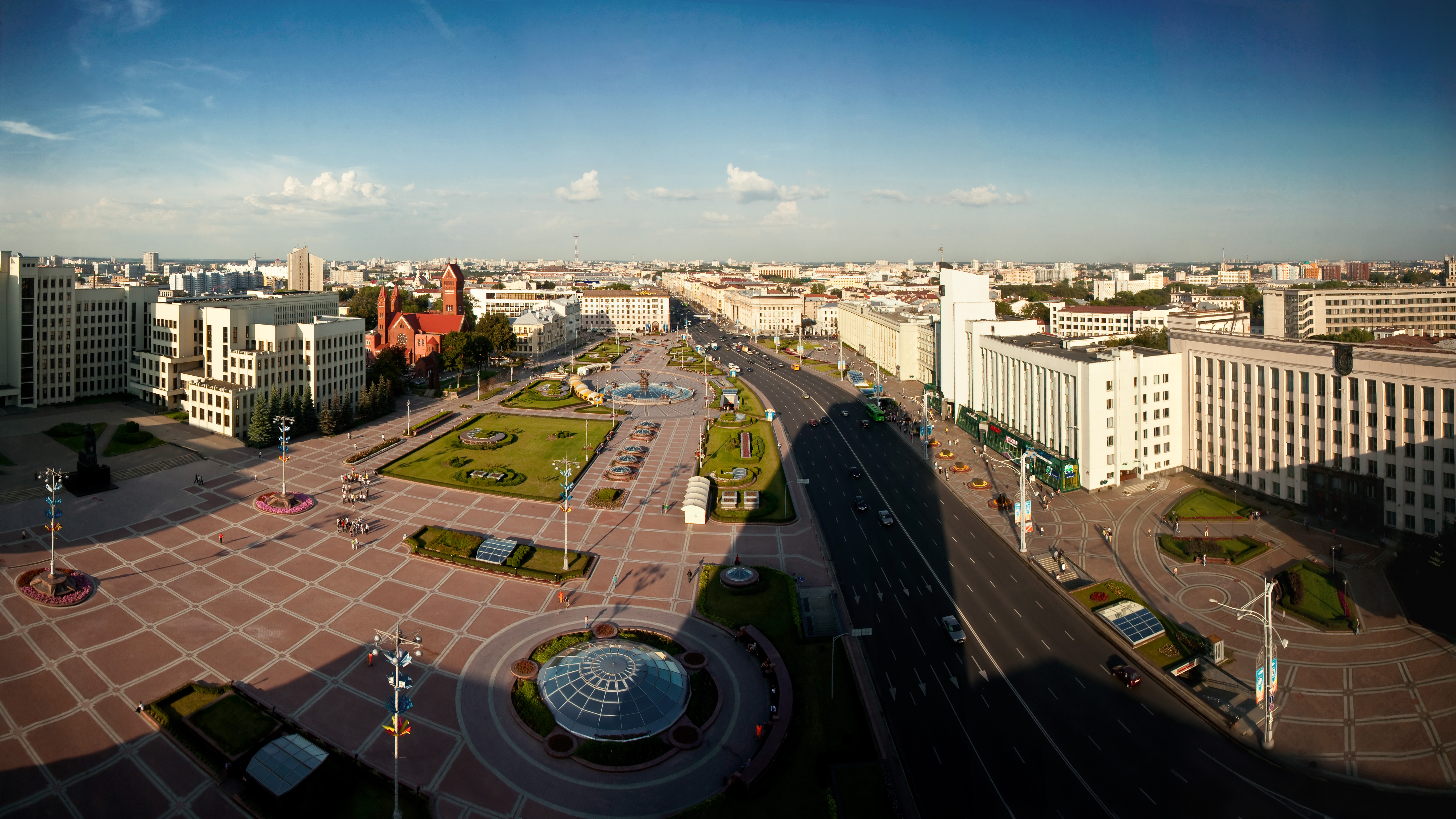 Independence square. Minsk, Belarus. Left to right: House of Government, Church of Saints Simon and Helena, the house where Ryhor Šyrma lived (Belarusian conductor), the hotel “Minsk”, Independence Avenue (praspiekt Niezaležnasci), Main Post Office, City Government Building, Minsk Metro Management Building, Belarusian State University.